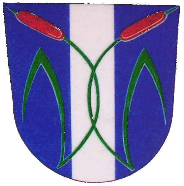 Municipal coat of arms of Spojil village, Pardubice District, Czech Republic.